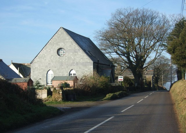 Trevadlock Cross Chapel. A Wesleyan chapel, recently converted into a dwelling and currently for sale (yours for around £420,000). It bears no date that I could see, but the earliest gravestone I found in the neighbouring cemetery (just beyond it) dates from 1859. Behind it to the left is the former Schoolroom.